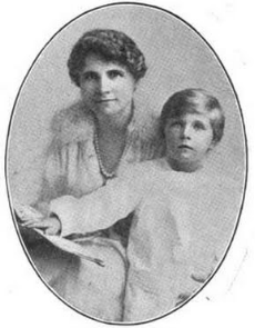 Mrs. Ogden Reid, from a 1921 publication.